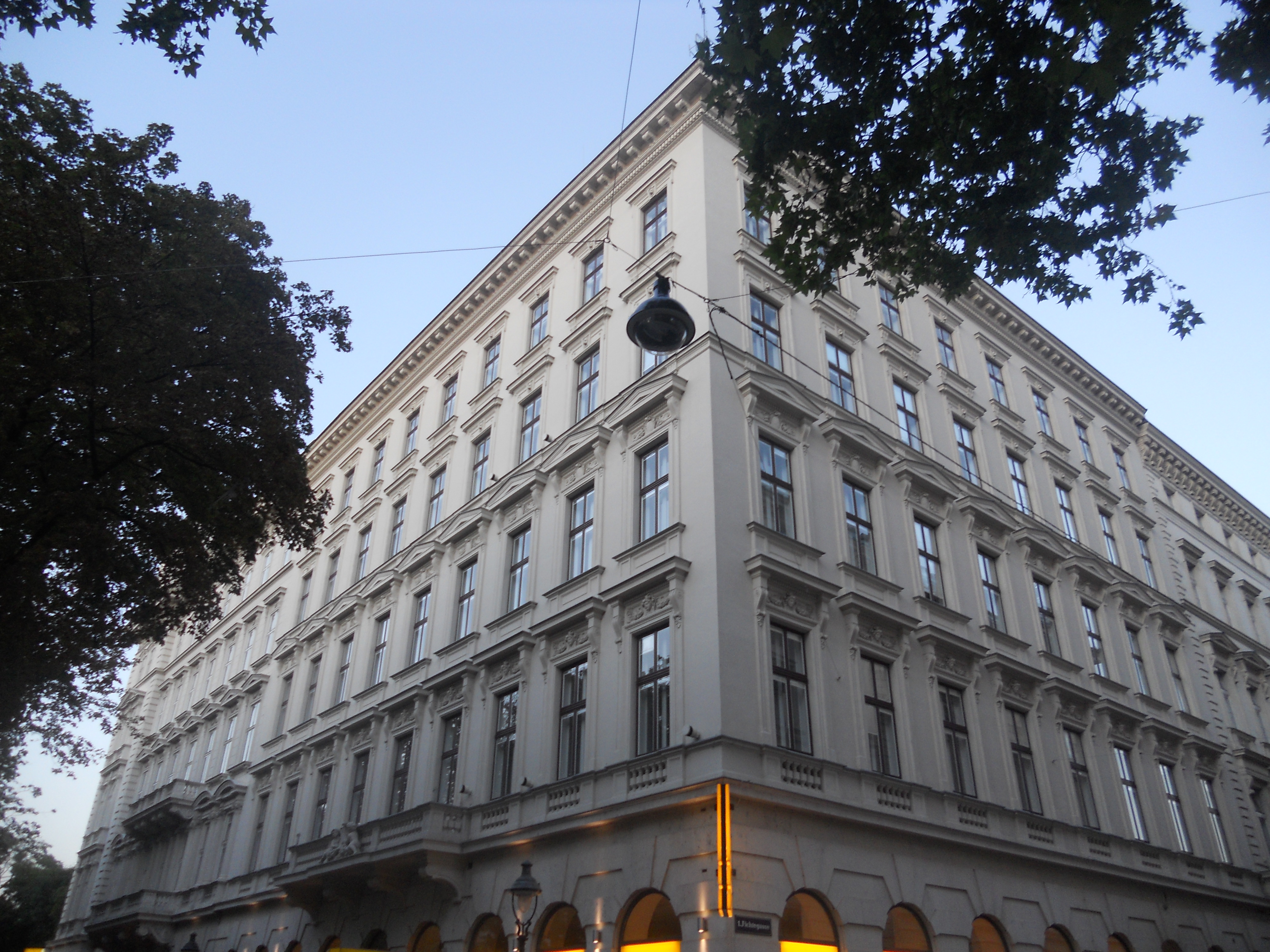 Haus Schubertring in Wien, erbaut 1864 von Romano/Schwendenwein